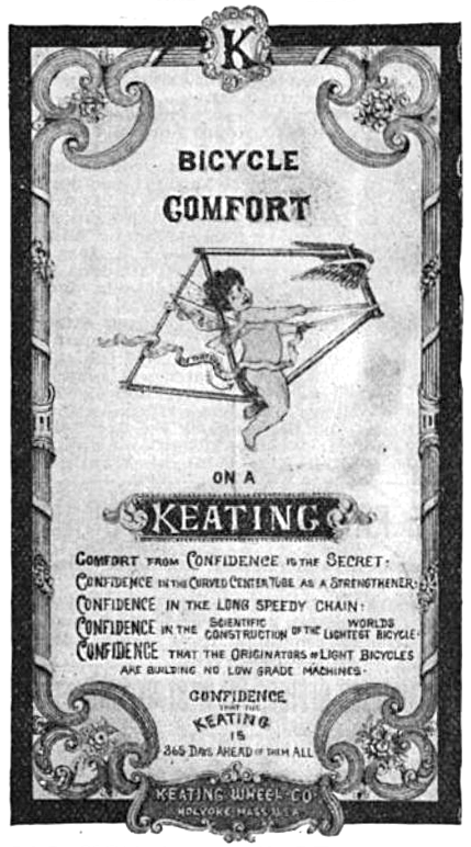 Magazine advertisement for Keating bicycles